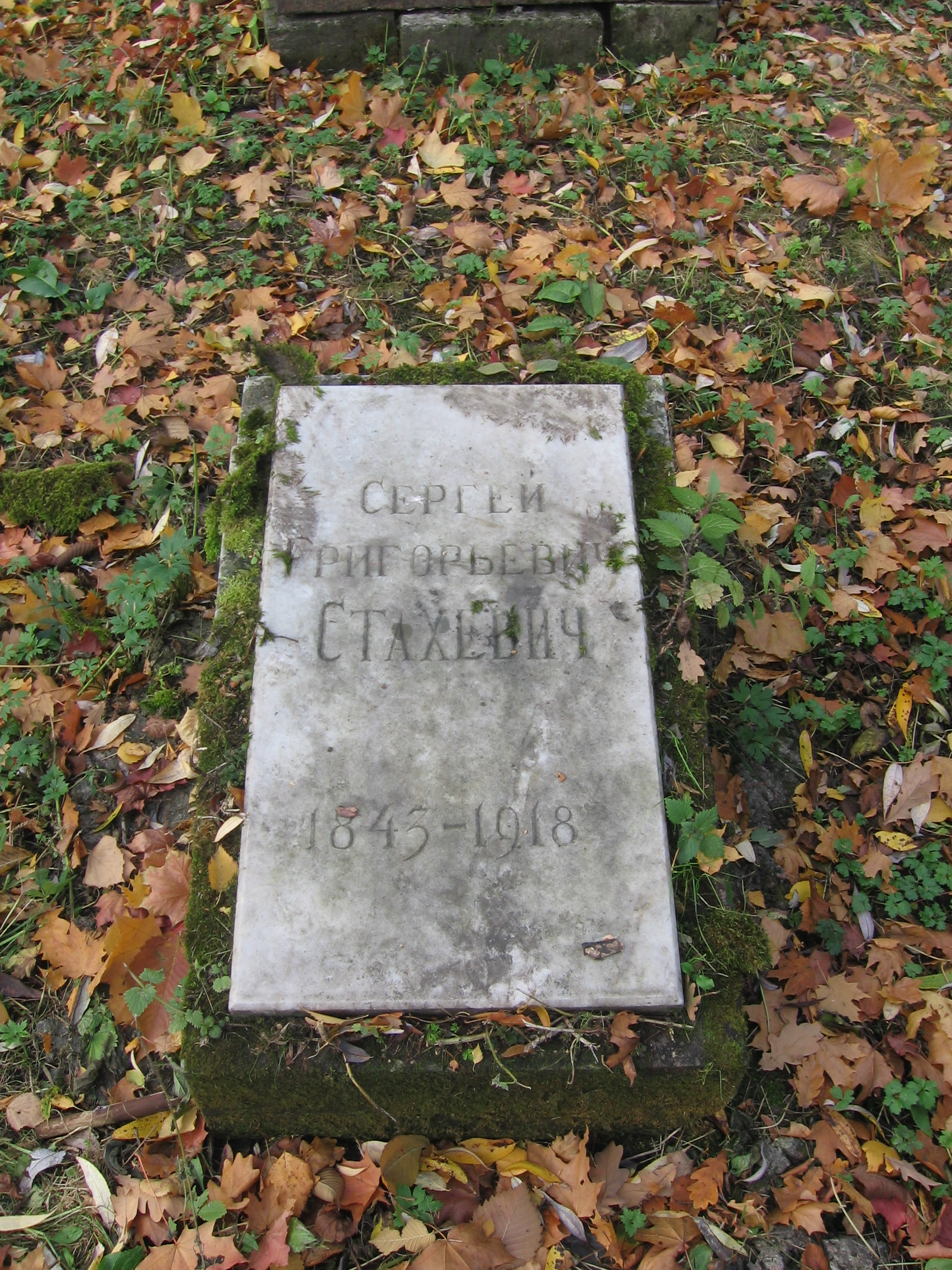 Grave of Sergey Stakhevich